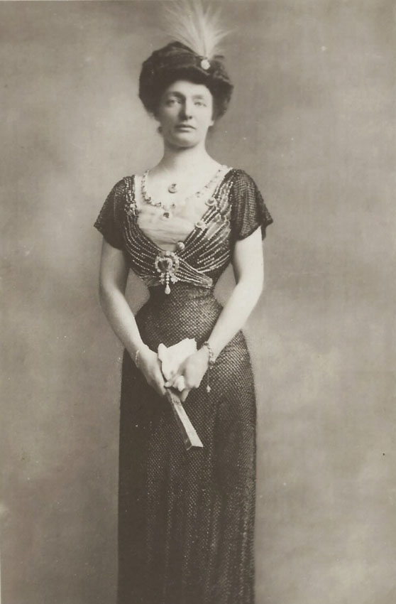 Margarethe, Princess of Thurn und Taxis